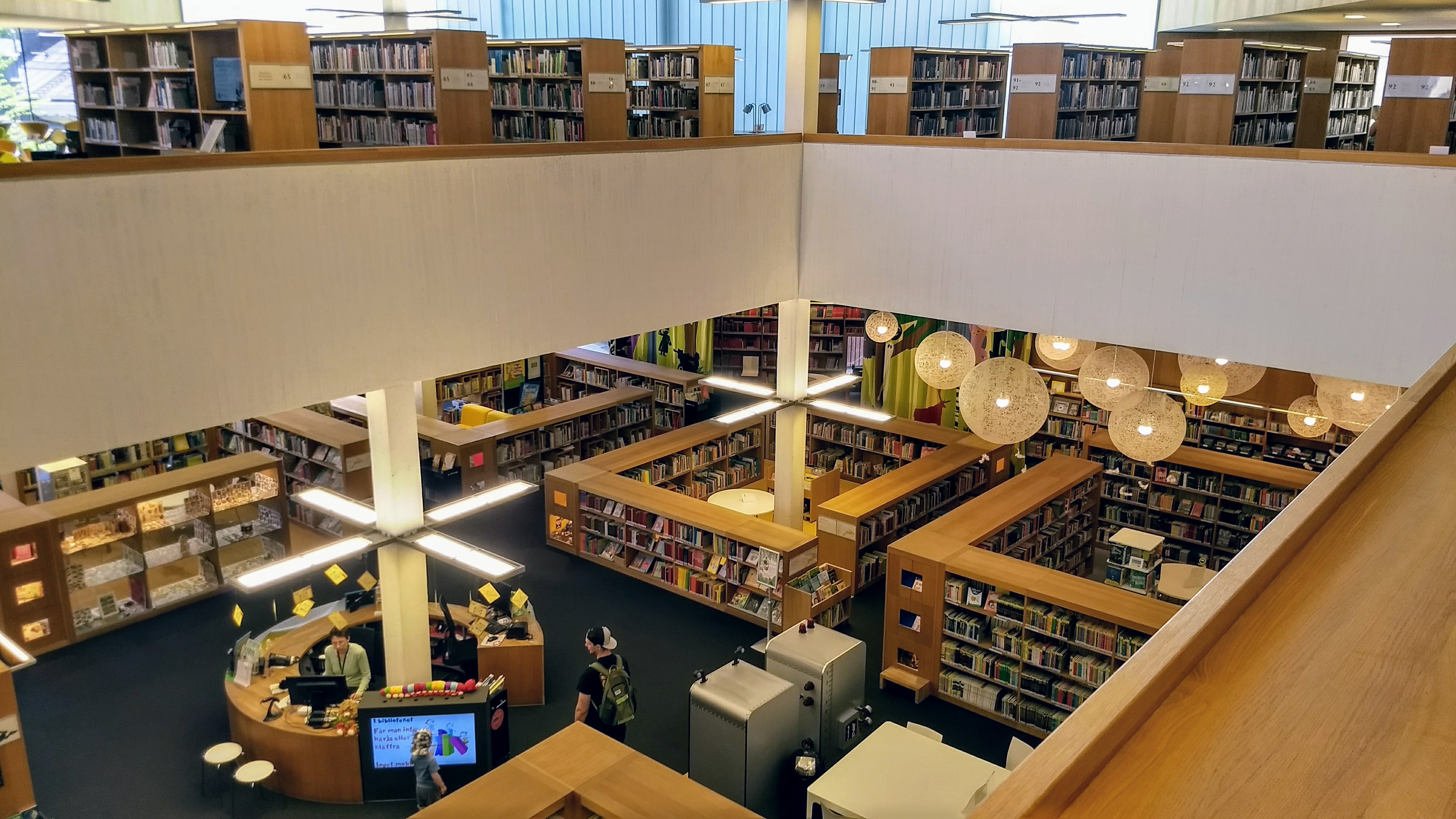 Turku main library 2018